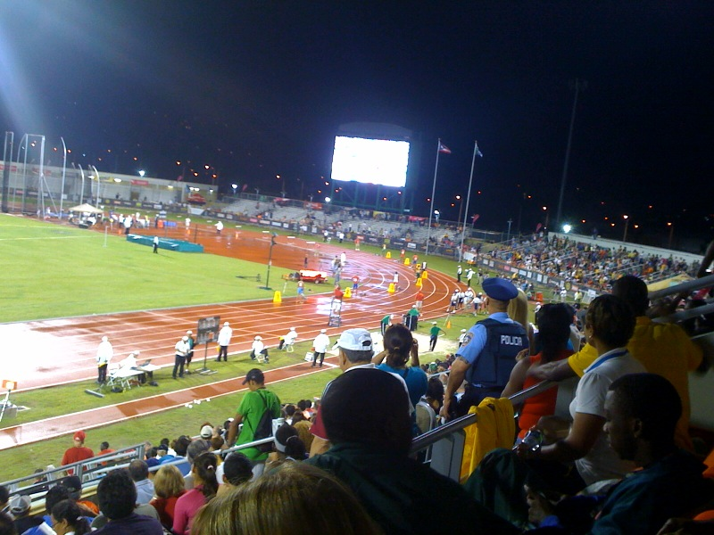 The men's 400 metres hurdles at the 2011 CAC Championships in Mayaguez, Puerto Rico.